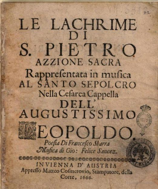 Title page of the libretto for Le lachrime di S. Pietro (The Tears of Saint Peter), composed by Giovanni Felice Sances and performed in Vienna in 1666